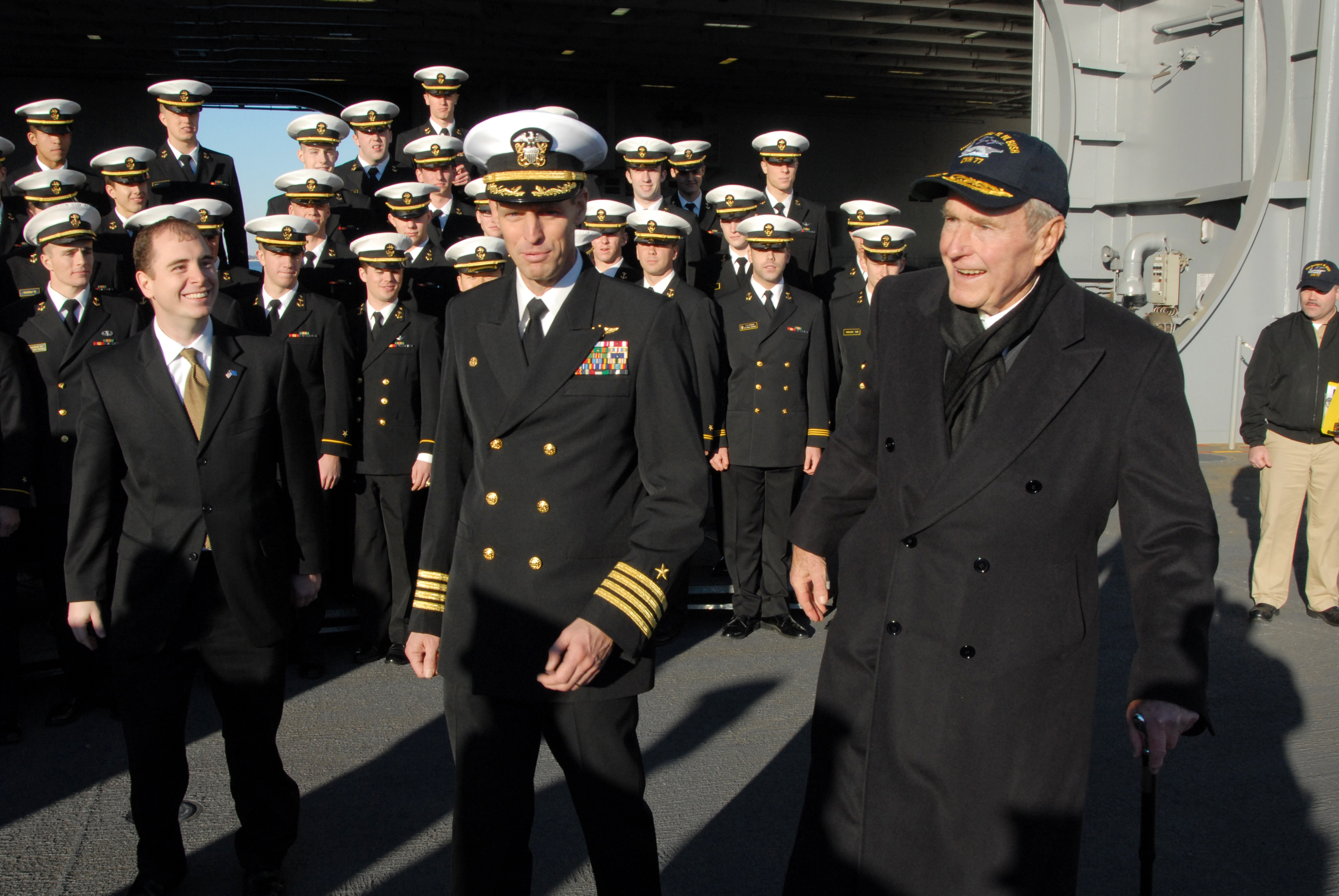 NORFOLK (Jan. 9, 2009) Capt. Kevin E. O'Flaherty, commanding officer of the aircraft carrier USS George H.W. Bush (CVN 77), escorts former President George H.W. Bush onto aircraft elevator No. 3 after a brief tour of the ship's tribute room. Bush, the ship's namesake, paid a visit to the carrier as the crew was making last-minute preparations for the ship's commissioning ceremony. (U.S. Navy photo by Mass Communication Specialist 1st Class Michael Tackitt/Released)